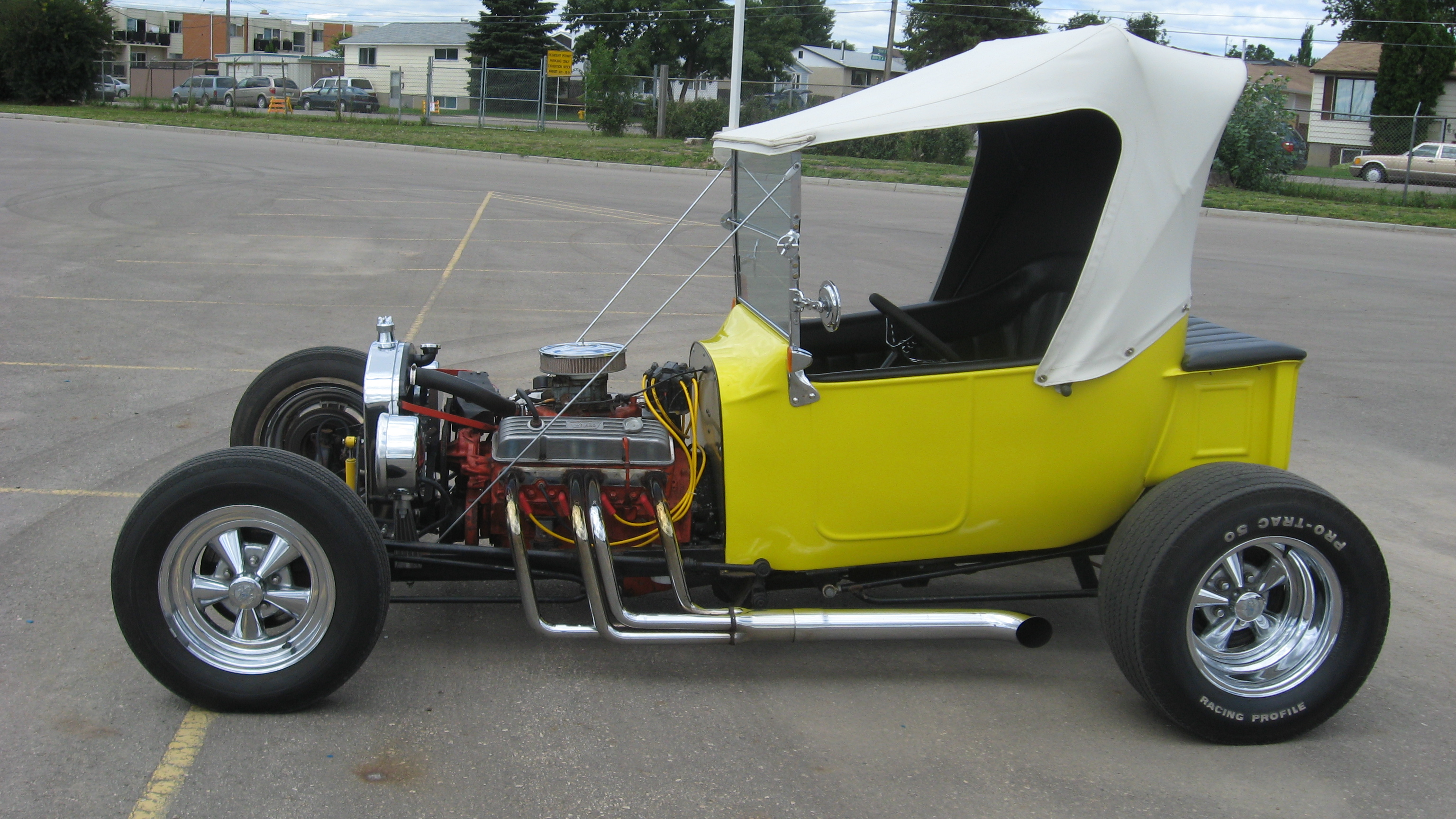 Ford T-bucket custom, shot at local car show/swap meet